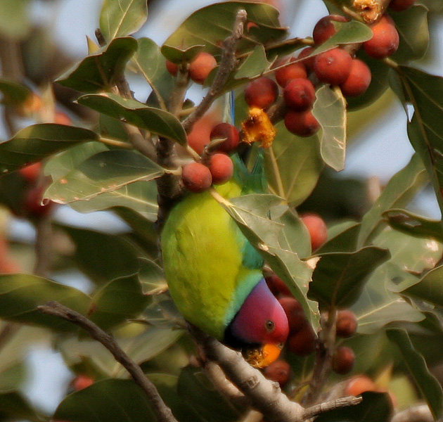 Plum-headed Parakeet Psittacula cyanocephala feeding on Ficus benghalensis in Hyderabad, India.